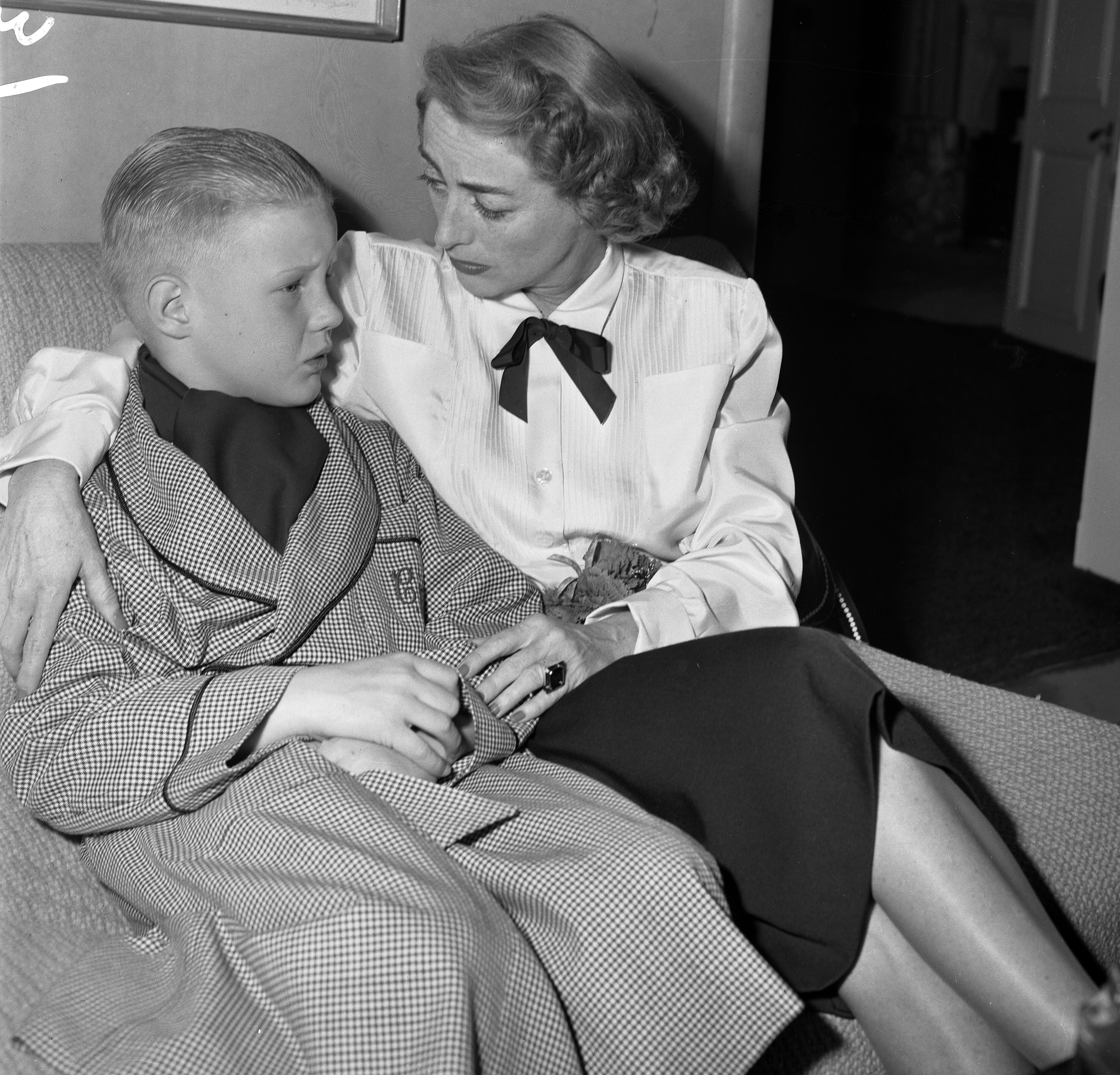 Actress Joan Crawford sitting with her 9 year-old son Christopher in Los Angeles, Calif., 1951